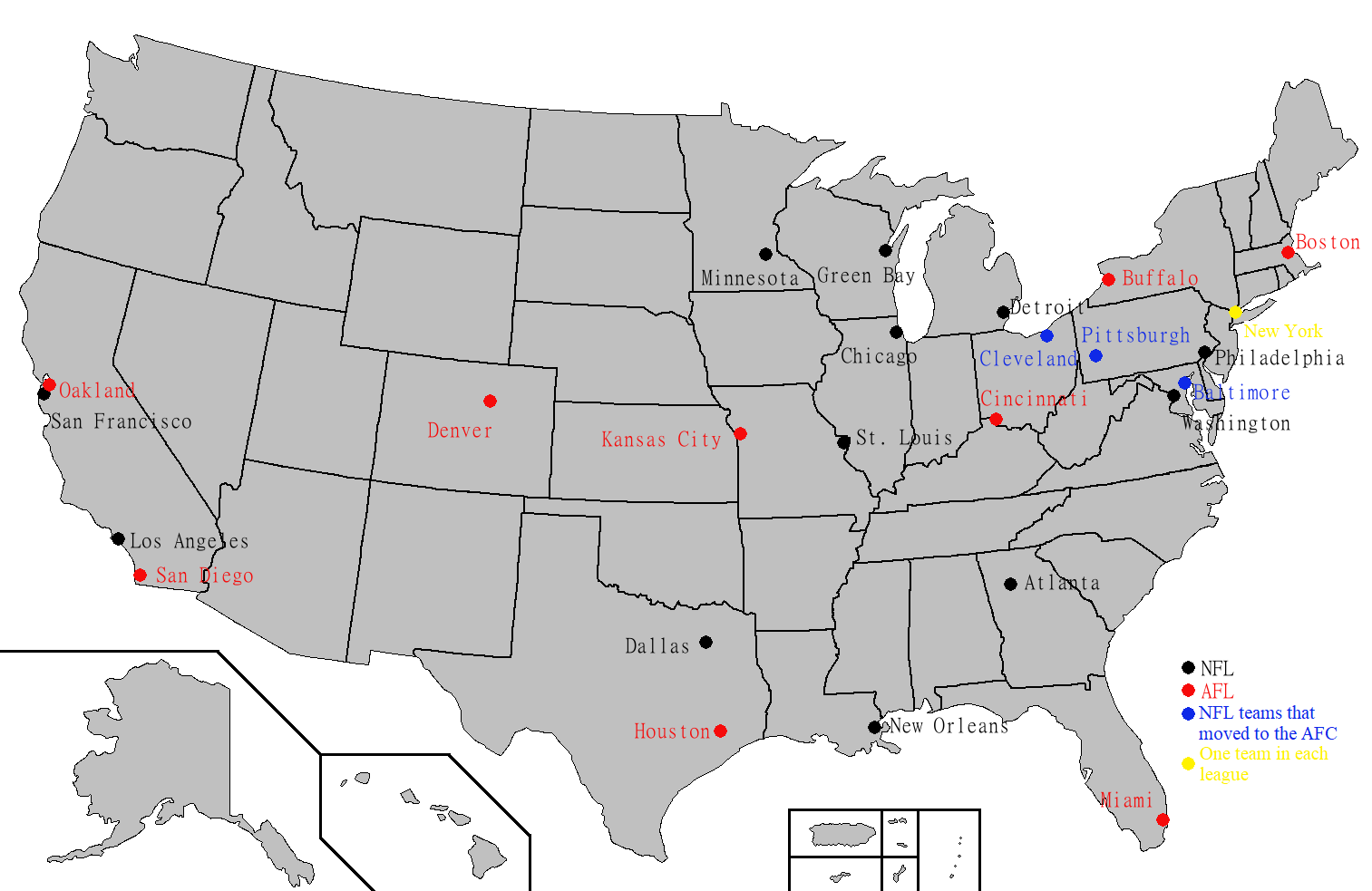 NFL and AFL teams at the time of the merger. Pittsburgh, Cleveland, and Baltimore joined with the AFL teams to form the AFC after the merger, while the other NFL teams formed the NFC. New York had a franchise in each league/conference.